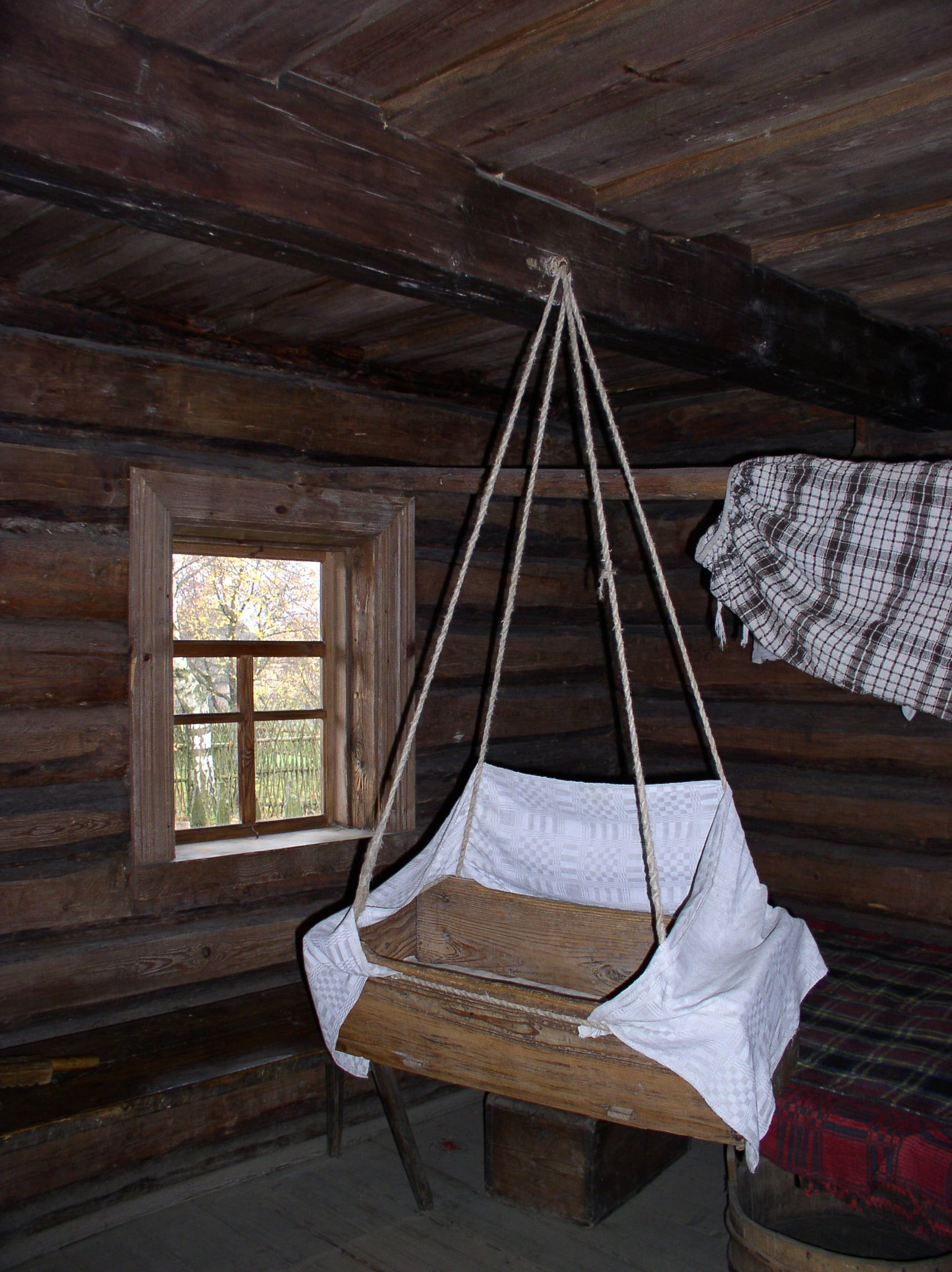 Cradle. State museum of folk architecture and life, Belarus.